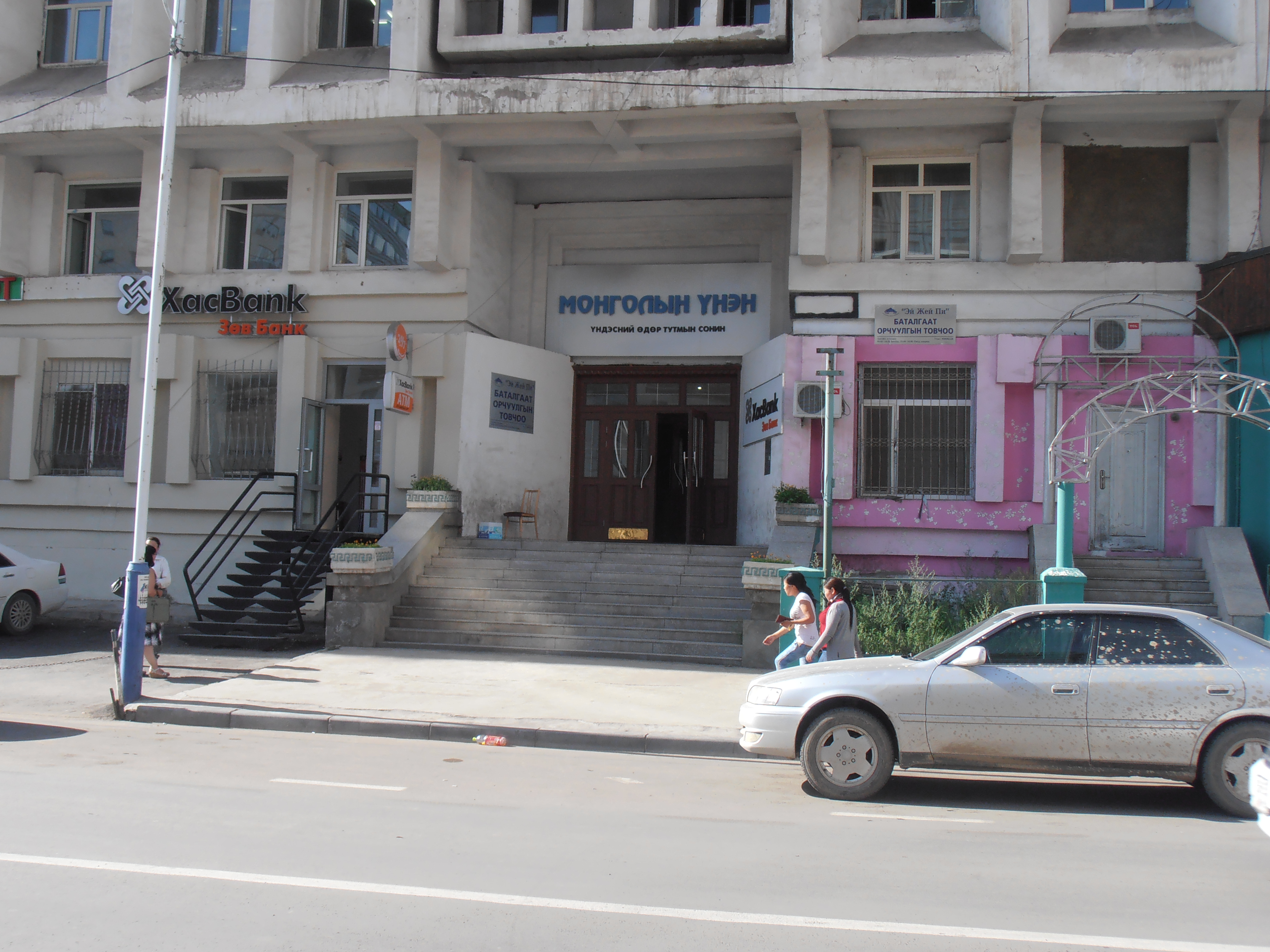 The building of "Mongolyn Unen" newspaper